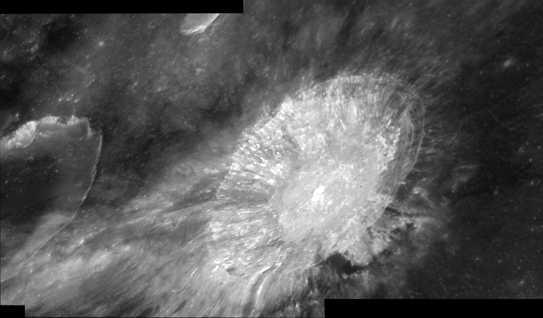 The Hubble Space Telescope's Advanced Camera for Surveys snapped this close-up view of the Aristarchus crater on Aug. 21, 2005. The crater is 26 miles (42 kilometers) in diameter and approximately 2 miles (3.2 kilometers) in depth, and sits at the southeastern edge of the Aristarchus Plateau. Aristarchus is one of the youngest and largest craters on the Moon. The crater formed between 100 and 900 million years ago.